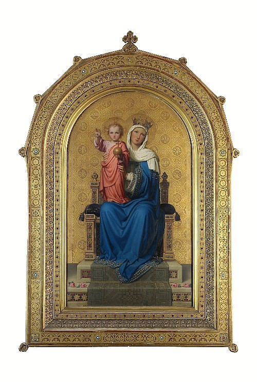 Franz Ittenbach: Mother of the World/the Virgin Mary and Christ Child enthroned", sold at auction by Chorley's in the UK in Oct. 2013, 99cm x 57cm (39” x 22.5”).